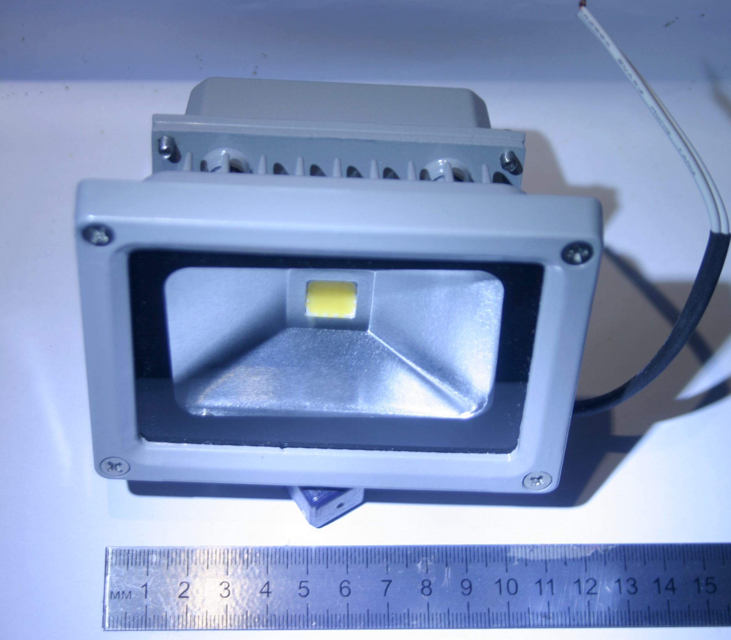 Outdoor flood 10W LED lamp.